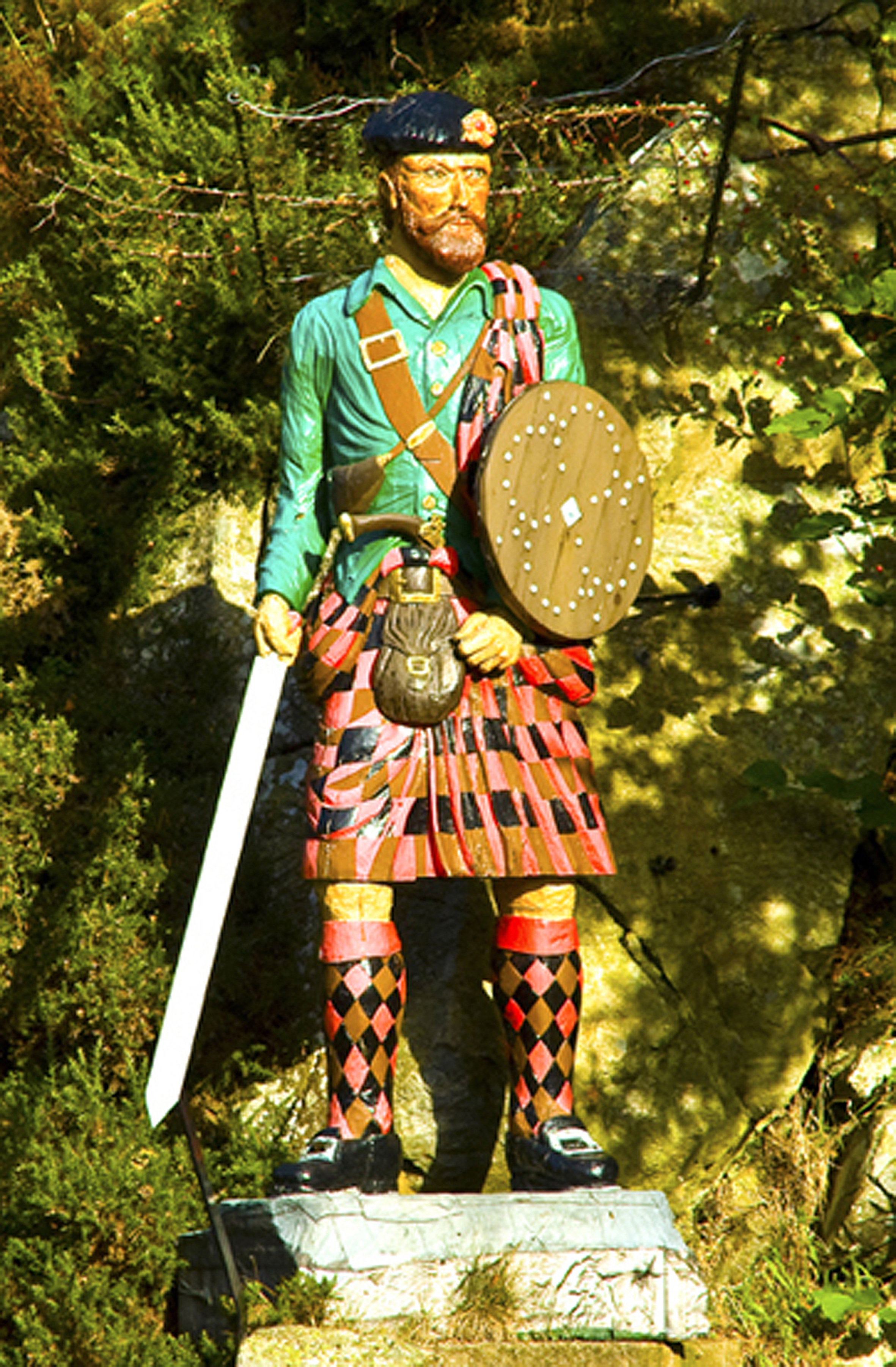 Rob Roy